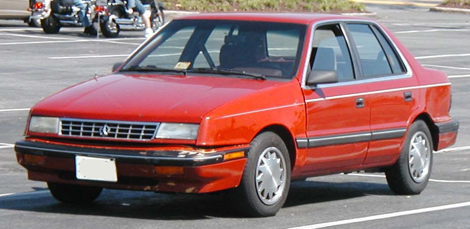 1987-1994 Plymouth Sundance photographed in USA.